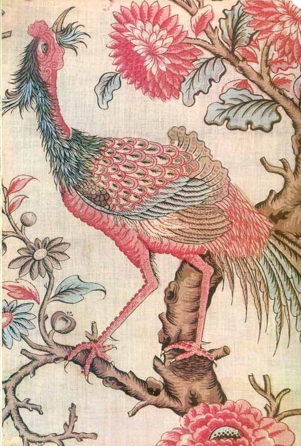 calico of M. Yamanovsky factory